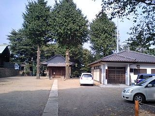 Kannonji Temple,Kawagoe city,JAPAN